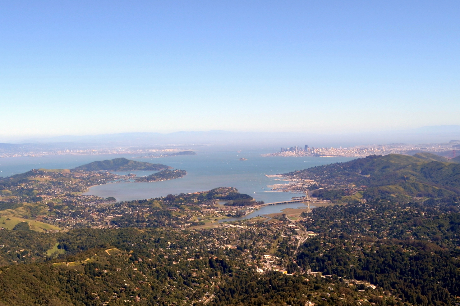 Richardson Bay